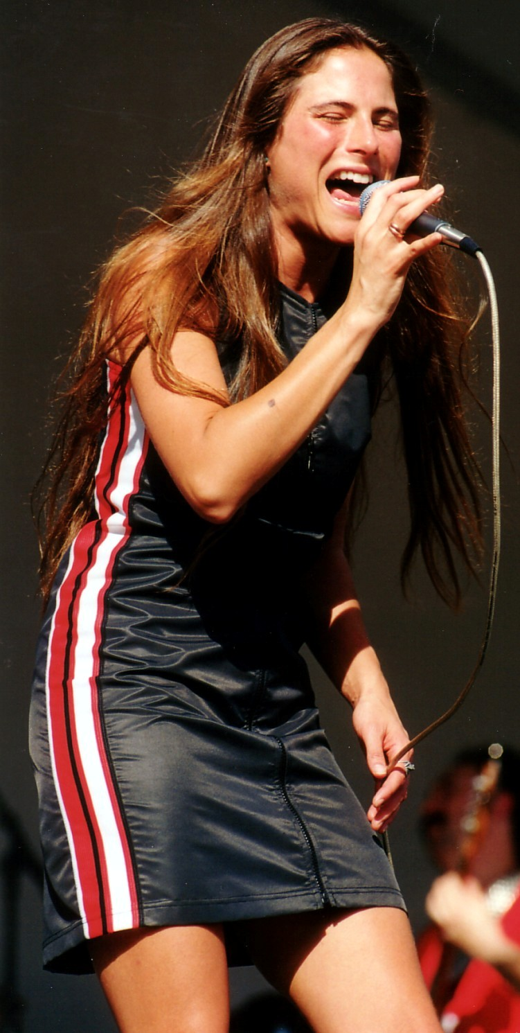 Diana Mangano performing in concert in Hallandale, Florida.